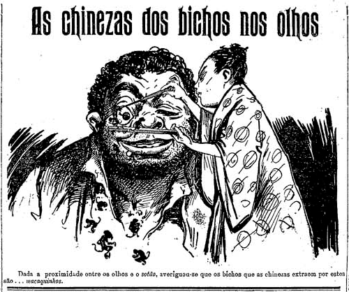 Caricature of the "Chinese of the Worms" in the A Capital newspaper, 20 November 1911.